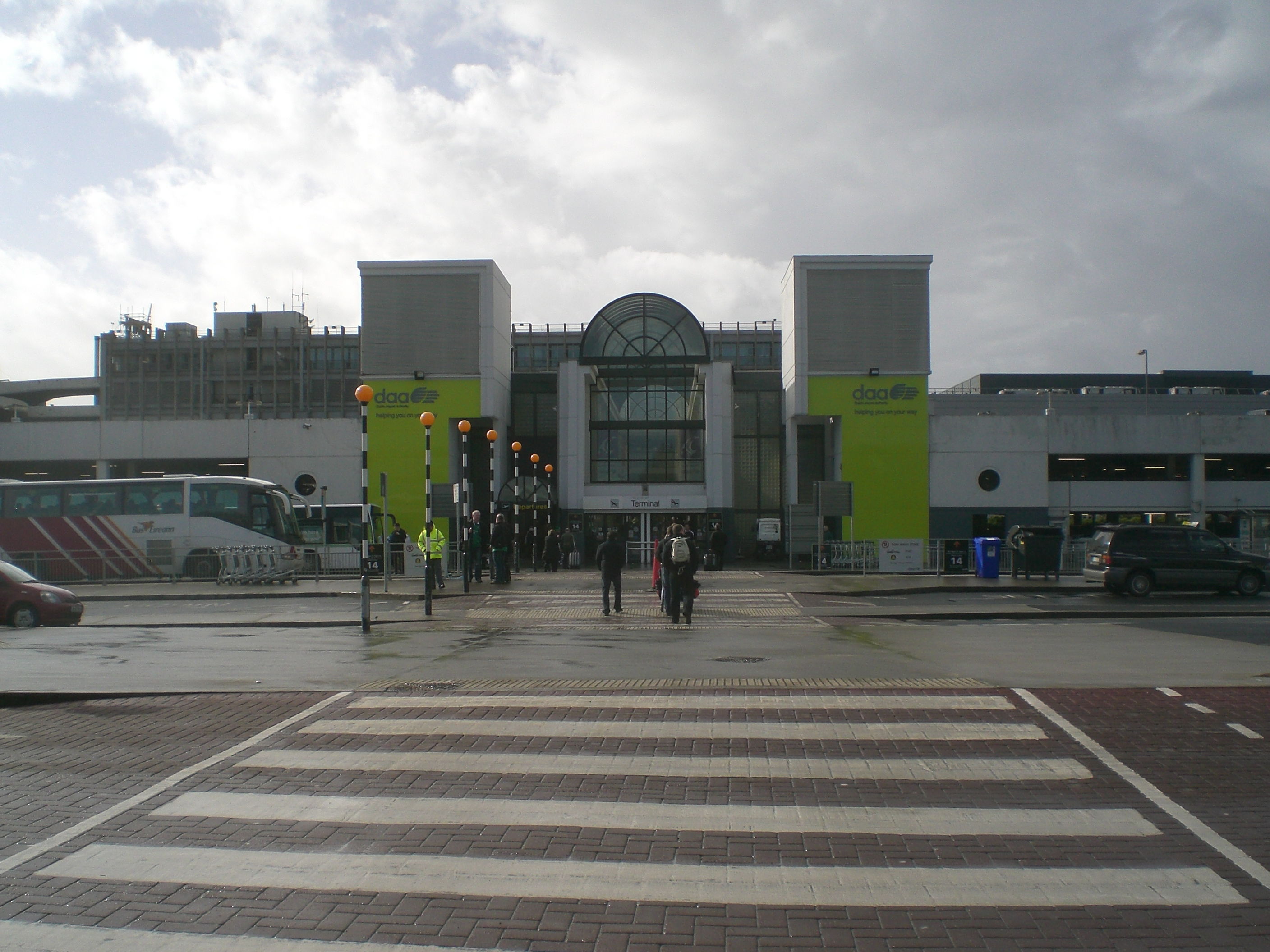 Dublin Airport, terminal entrance